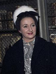 Colette Hubert Senghor, the First Lady of Senegal, during an official visit to Frankfurt, West Germany, on 11 November 1961 with her husband, Léopold Sédar Senghor.